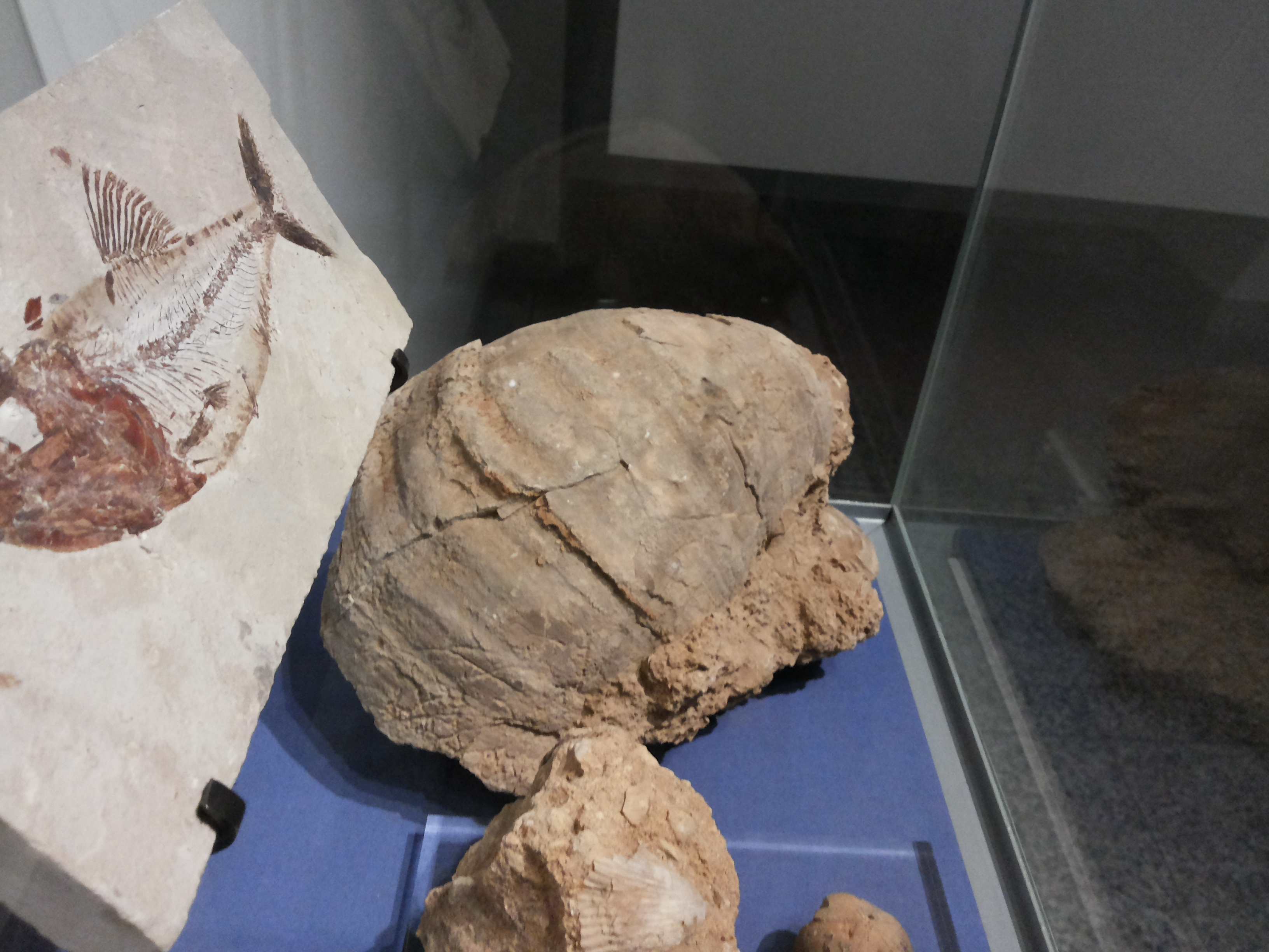 Fossil fish and seashells at sharjah aquarium 2013